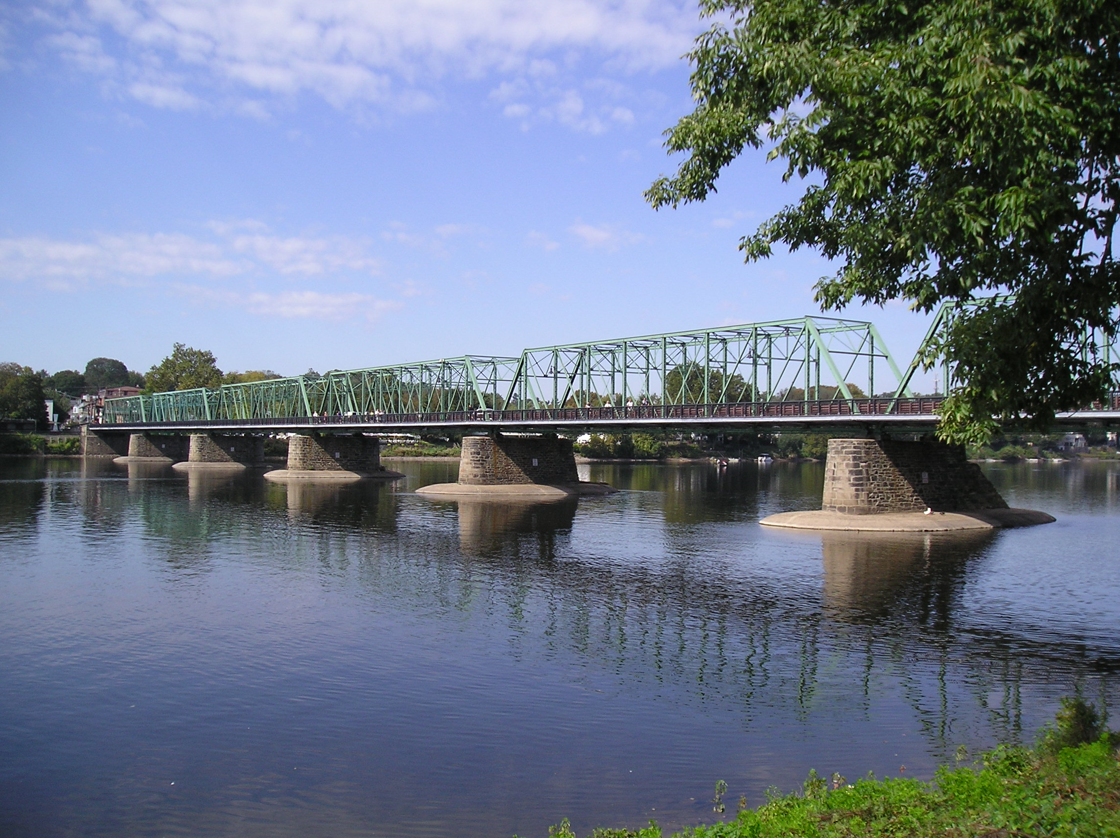 New Hope Lambertville bridge seen from south side New Jersey shore.